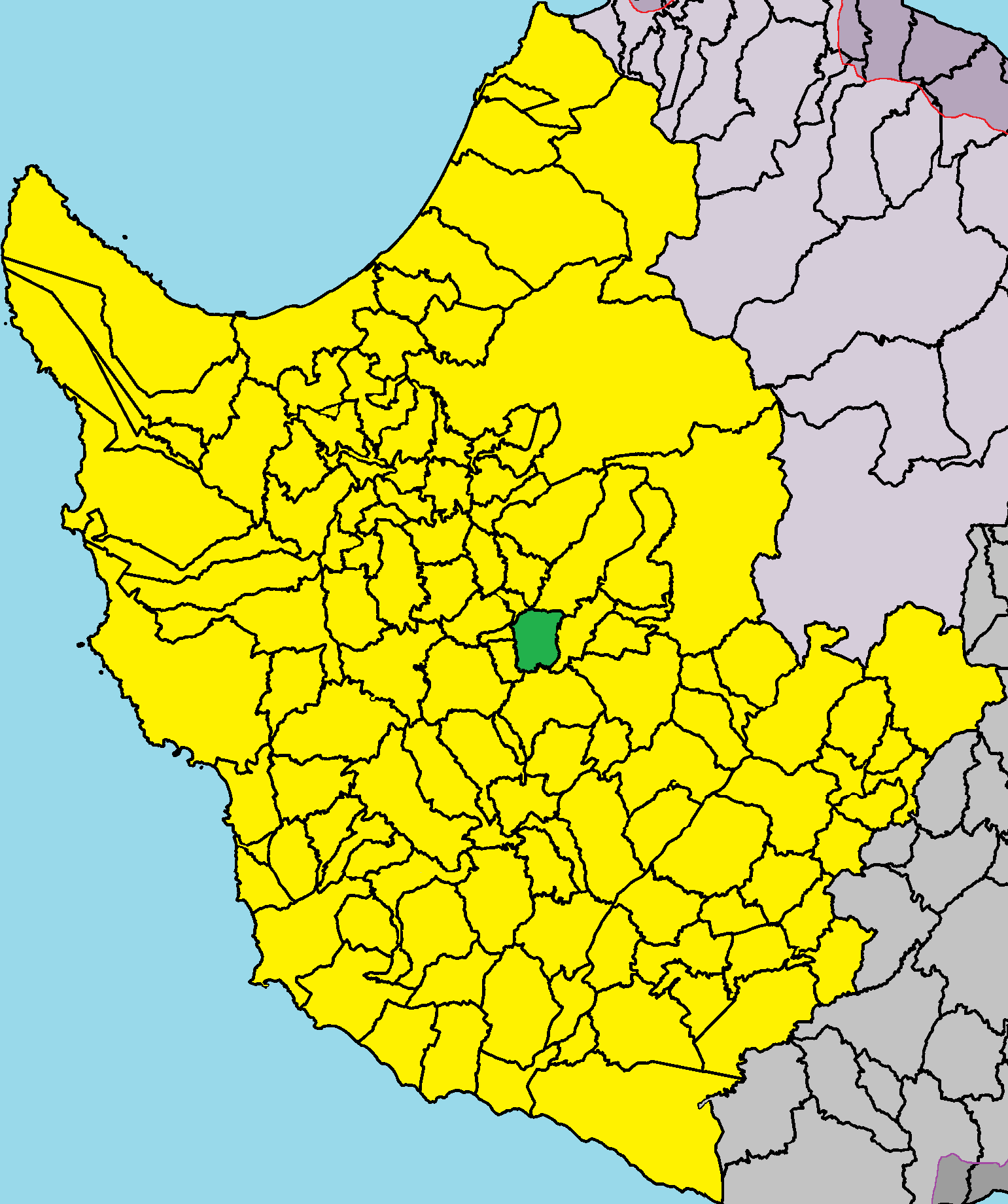 Agios Dimitrianos in Paphos District.